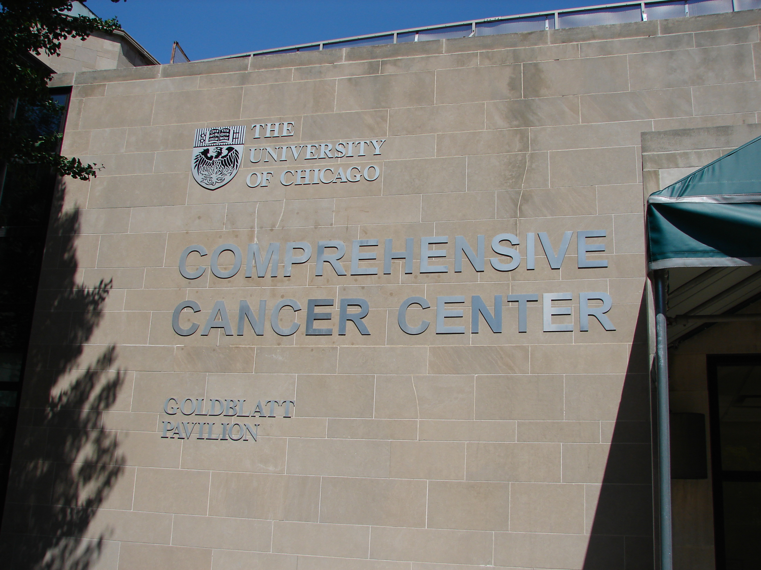 Photo of the Goldblatt Entrance at The University of Chicago